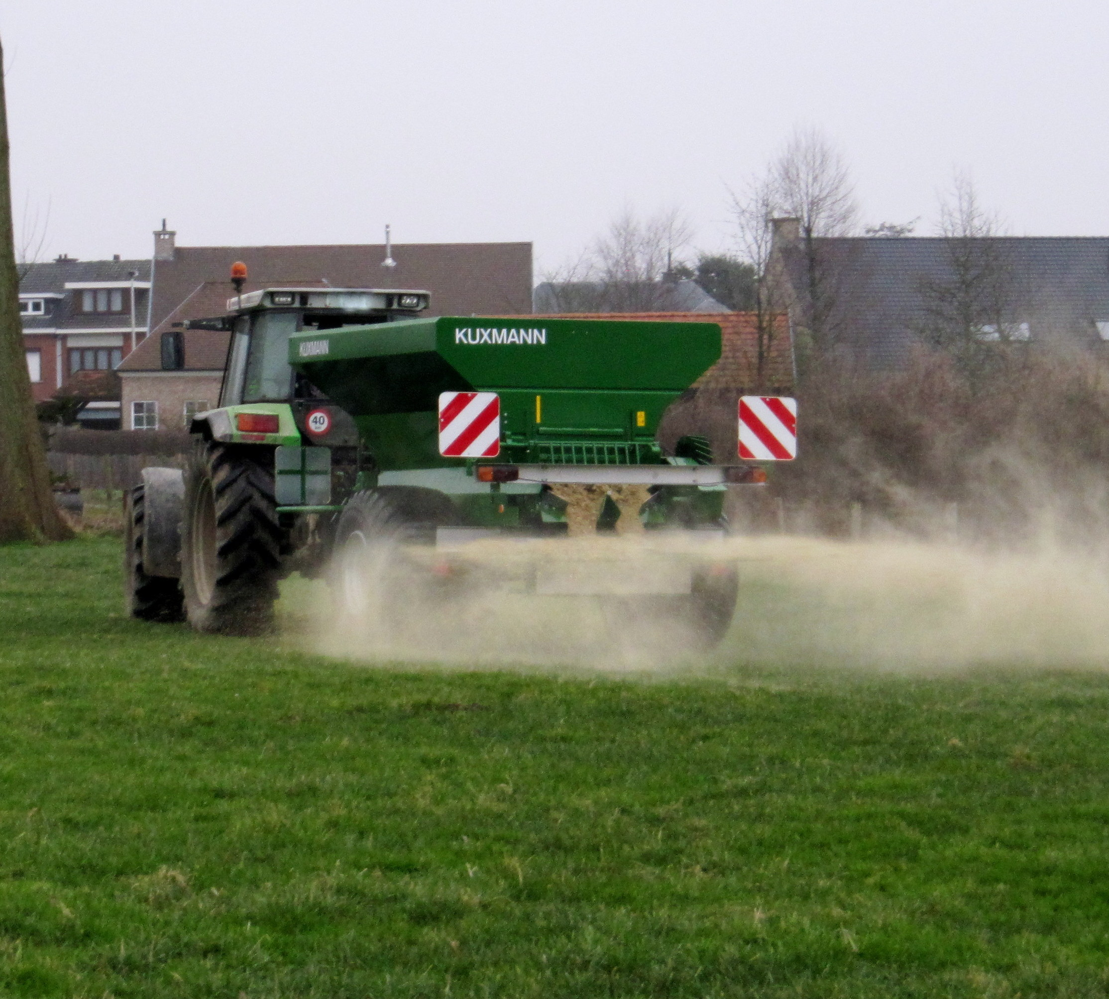 This Photo showes a Deutz-Fahr DX6 and a Kuxmann Bulk fertilizer spreader of the Line "Kurier" with belgien equipment. The spreader in this Photo is used as a lime spreader.